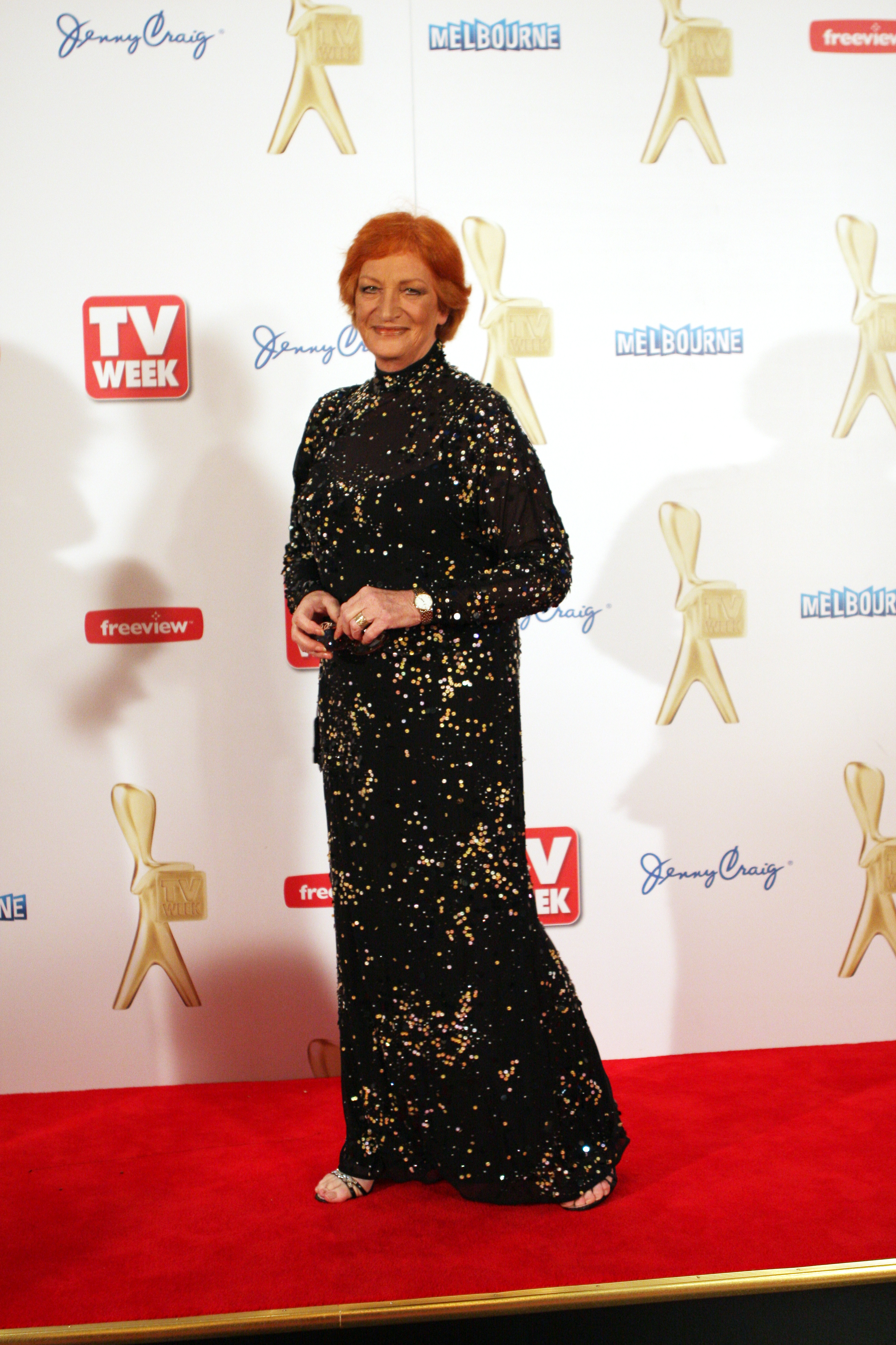 Actress Cornelia Frances at the 2011 Logie Awards.